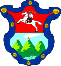 Coat of arms of this department of Guatemala Permission